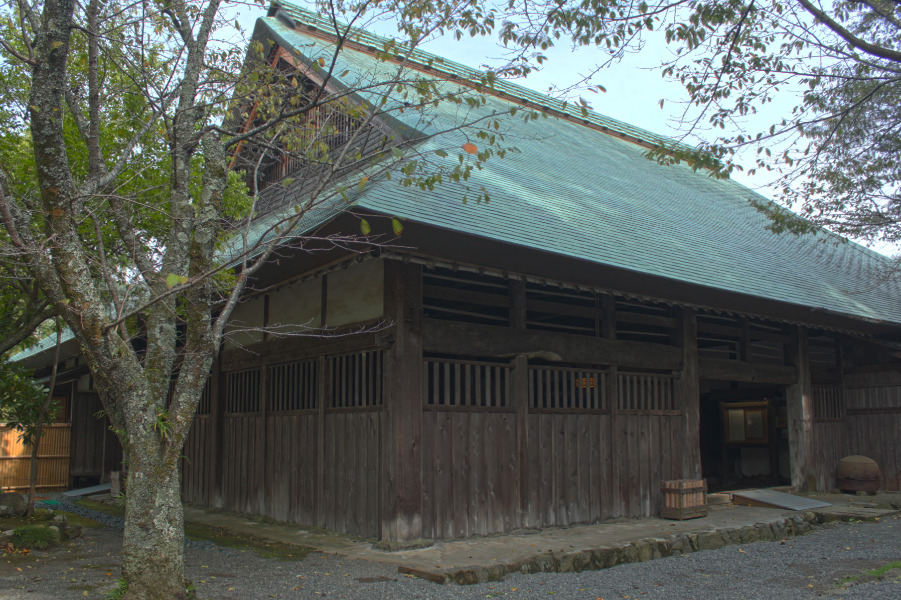 Main building of Egawa residence in Izunokuni, Shizuoka Prefecture, Japan.